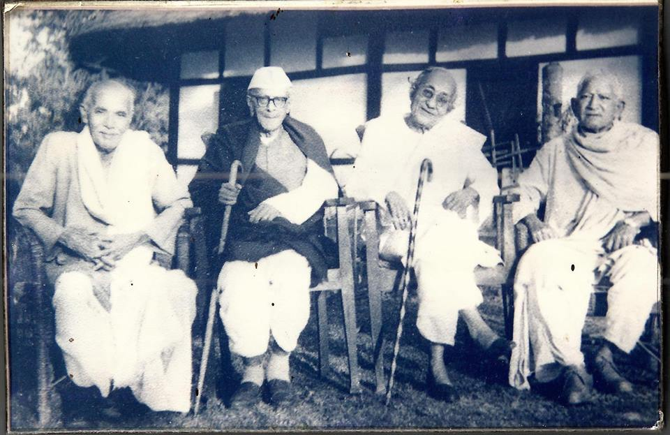 Nakul Chandra Bhuyan with other stalwarts of Assamese literature